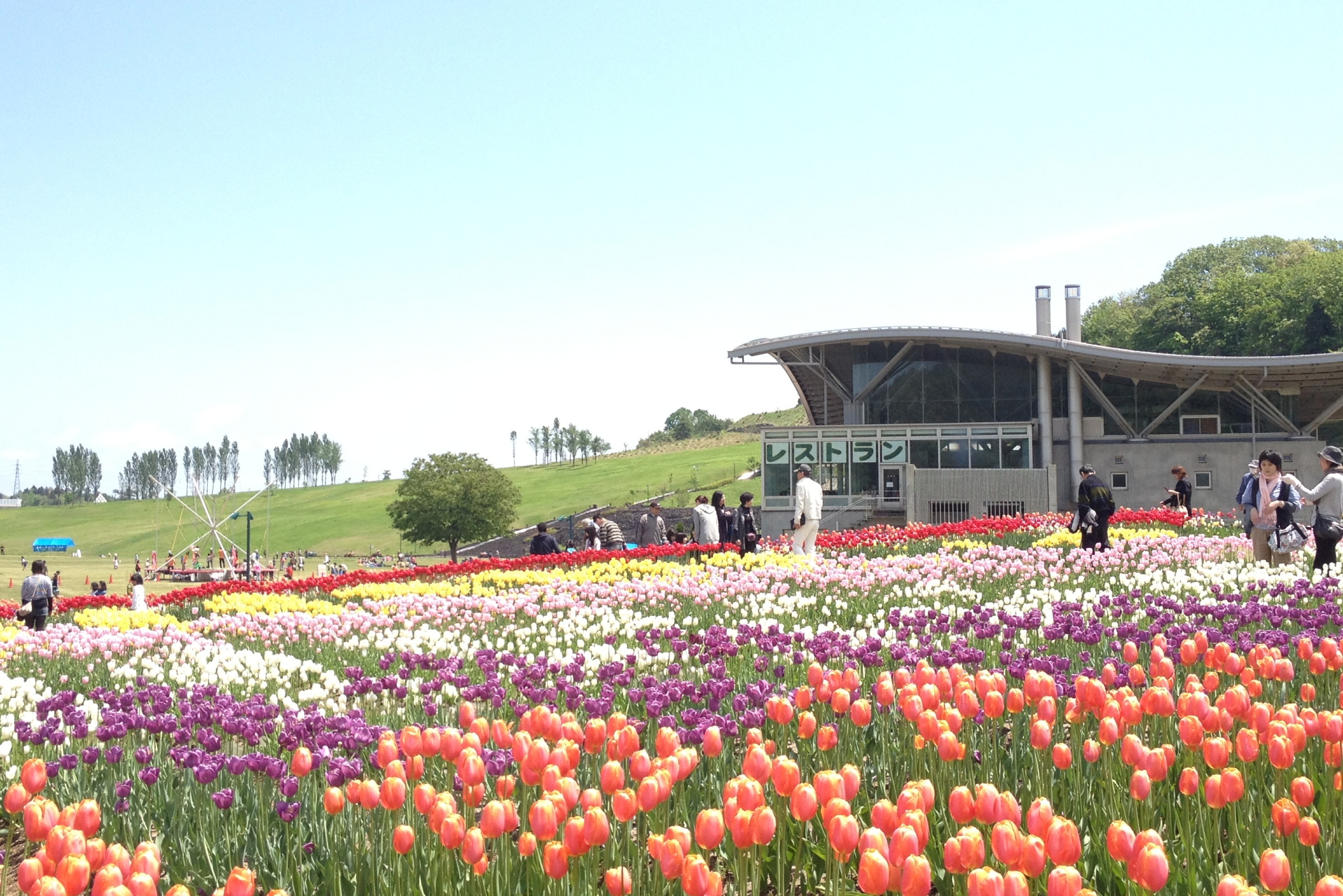 Restaurant in Echigo Hillside National Government Park, Nagaoka, Niigata Prefecture, Japan